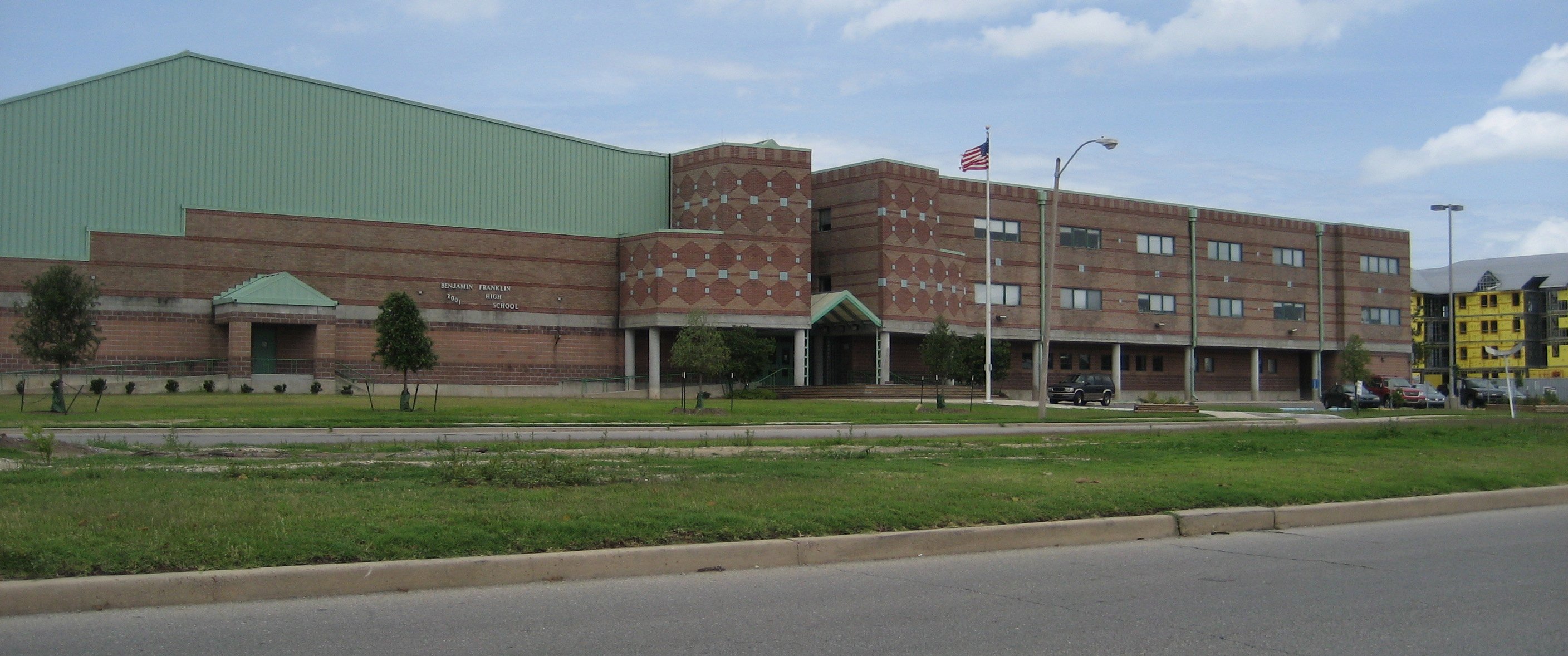 Benjamin Franklin High School, New Orleans seen from Leon C. Simon Drive